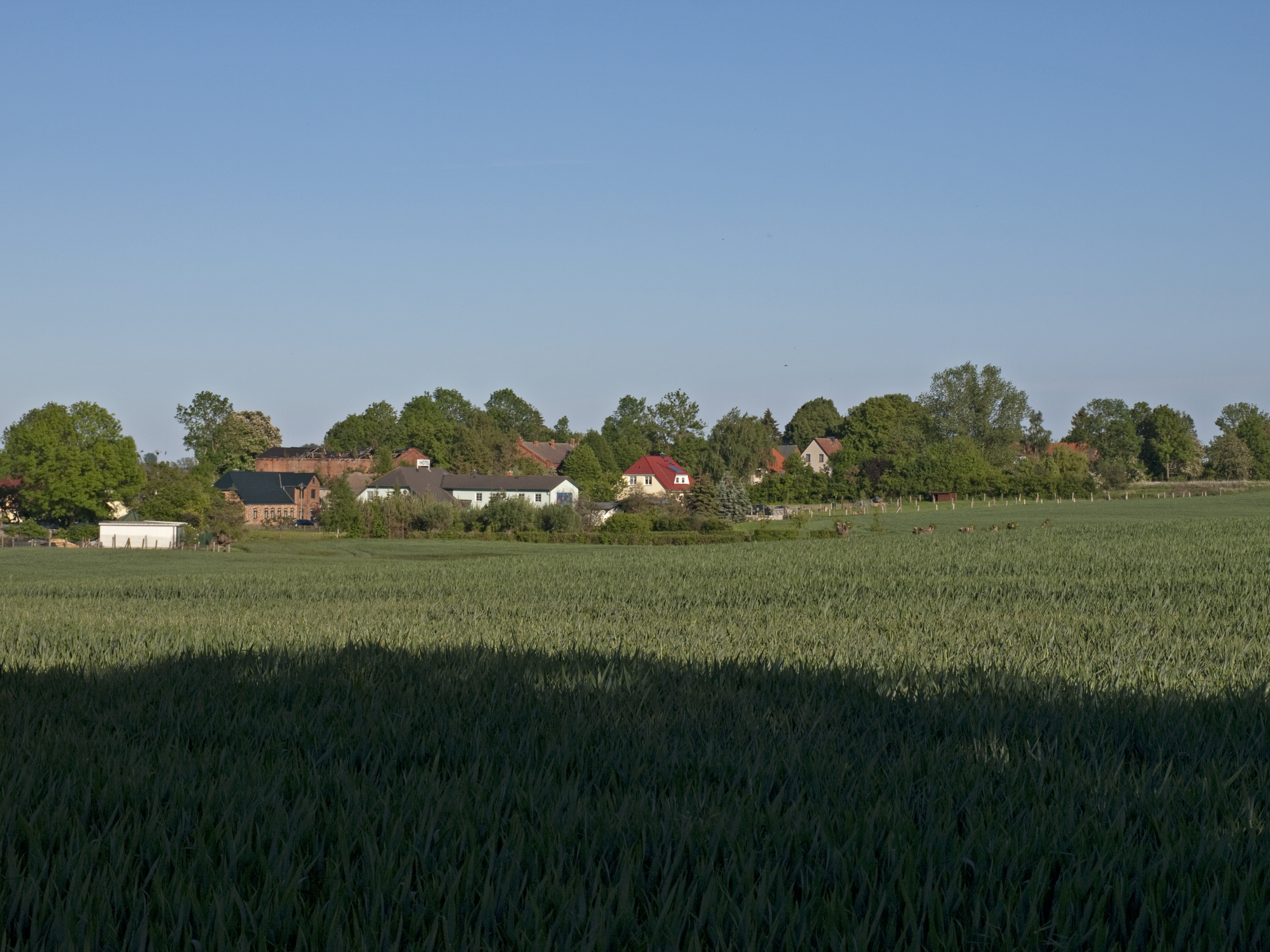 The panorama of the town of Penzin